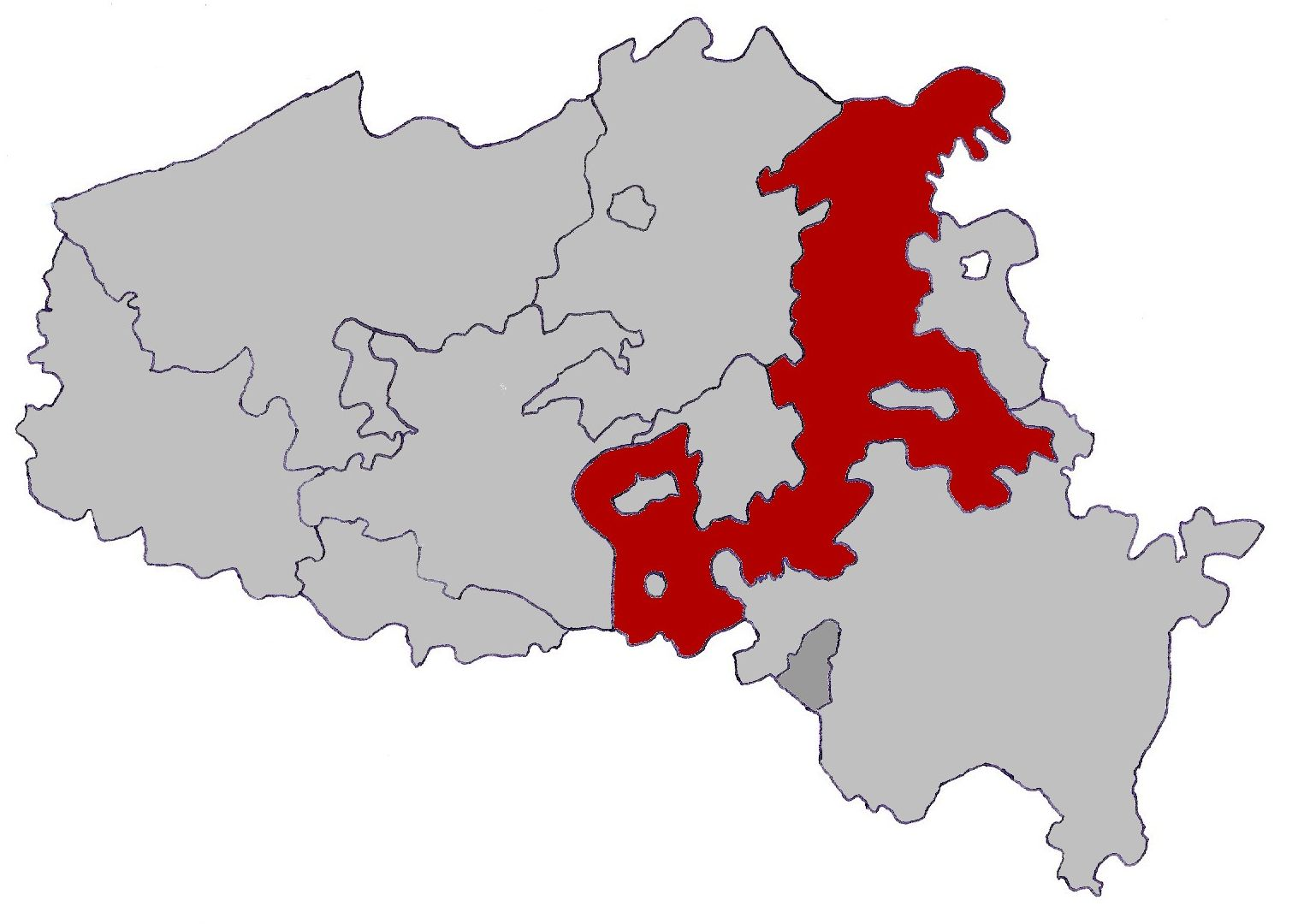 Map of the republic's territories (red) between the Austrian Netherlands (grey).